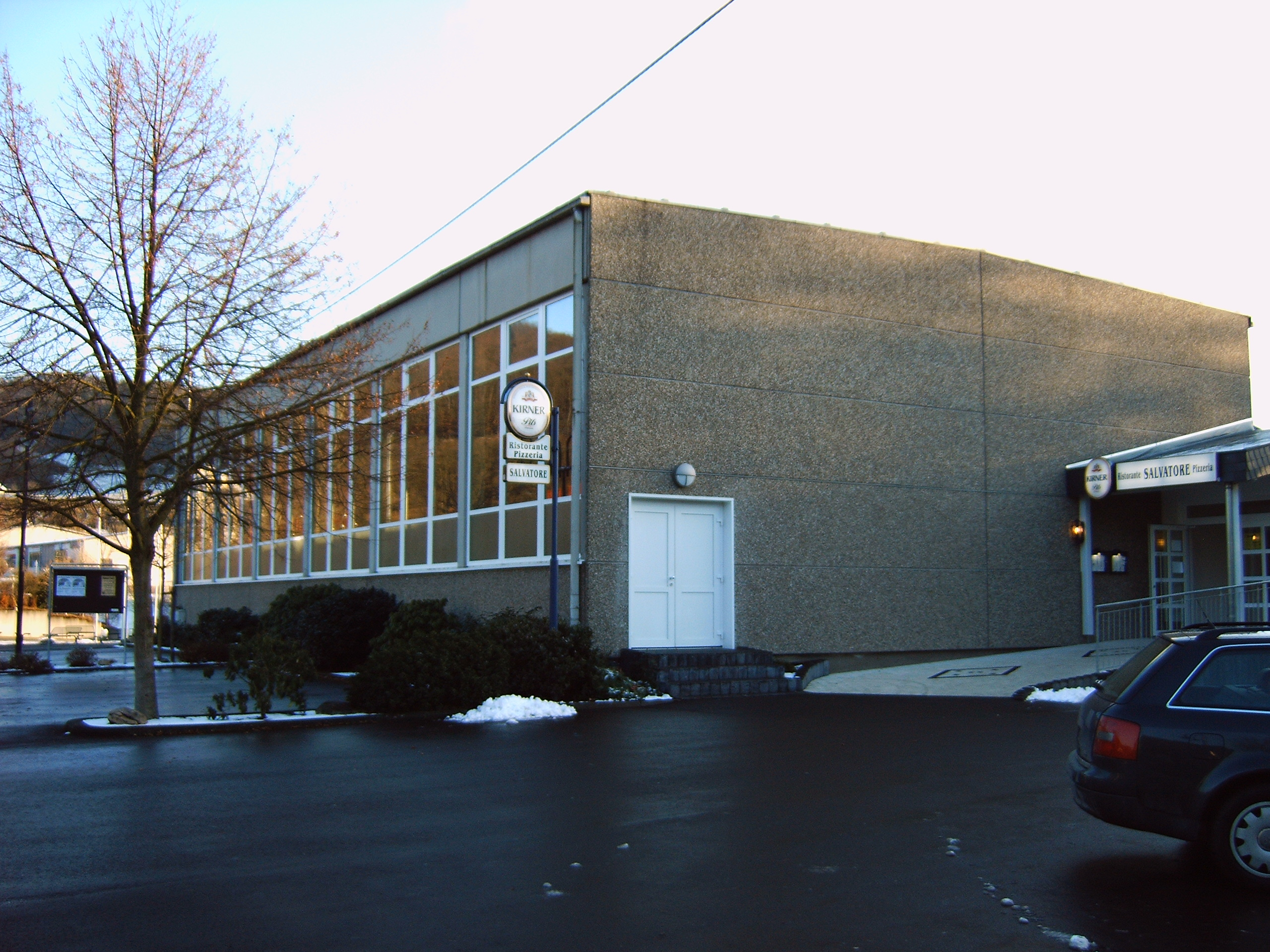 Description: old gym Source: Alexander Dreyer Site views of Niederwörresbach, Germany, Photographed by myself, dec. 2005